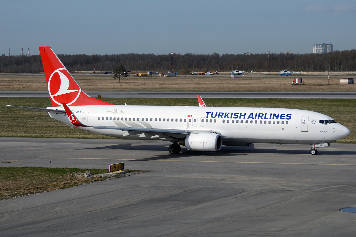 Turkish Airlines, TC-JGT, Boeing 737-8F2